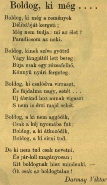 Poem of Darmay Viktor